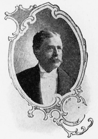 Halftone reproduction of a photograph of Medal of Honor recipient Sergeant Richard Binder, USMC, published in "Deeds of Valor", Volume II, page 81, by the Perrien-Keydel Company, Detroit, 1907.